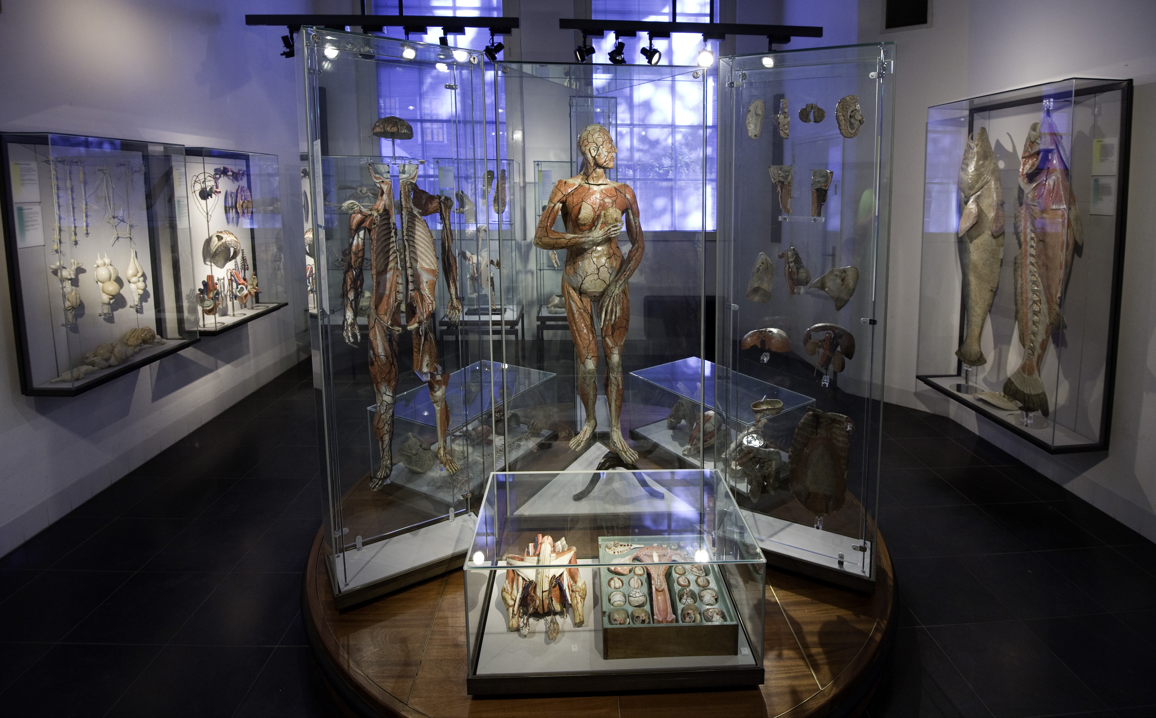 Museum Boerhaave walk-through